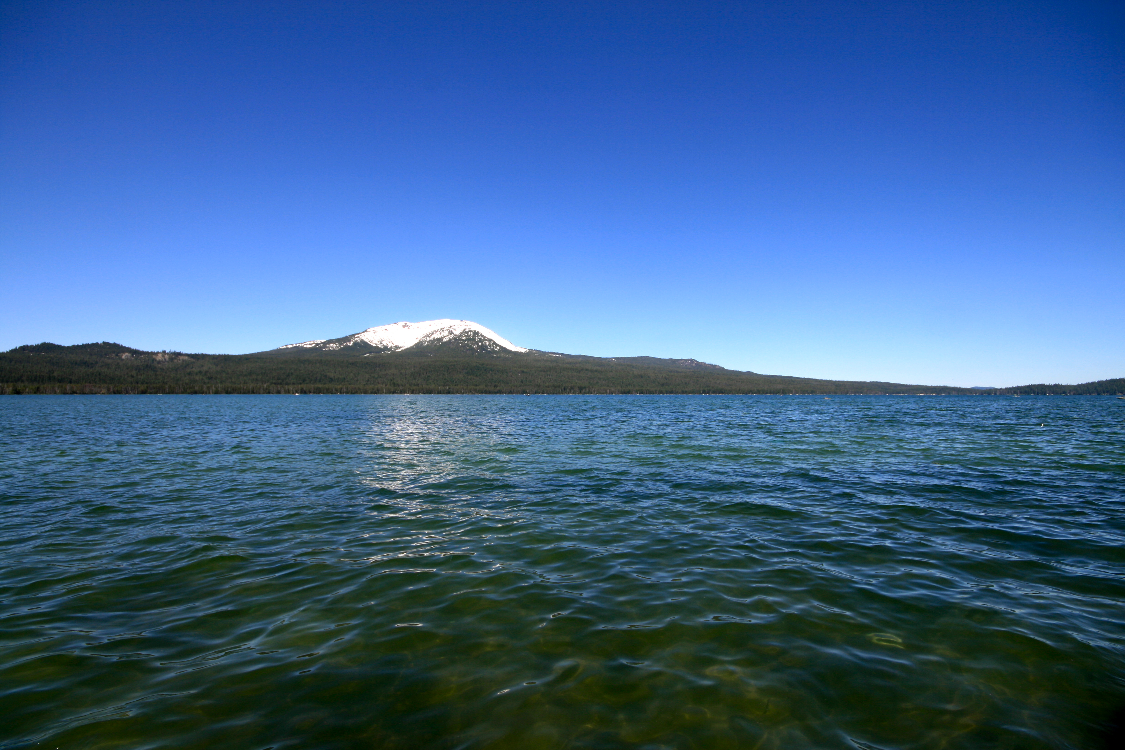 Looking West towards Mt Bailey.....